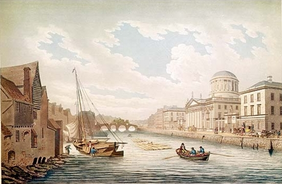 The Four Courts and the river Liffey, Dublin 1799